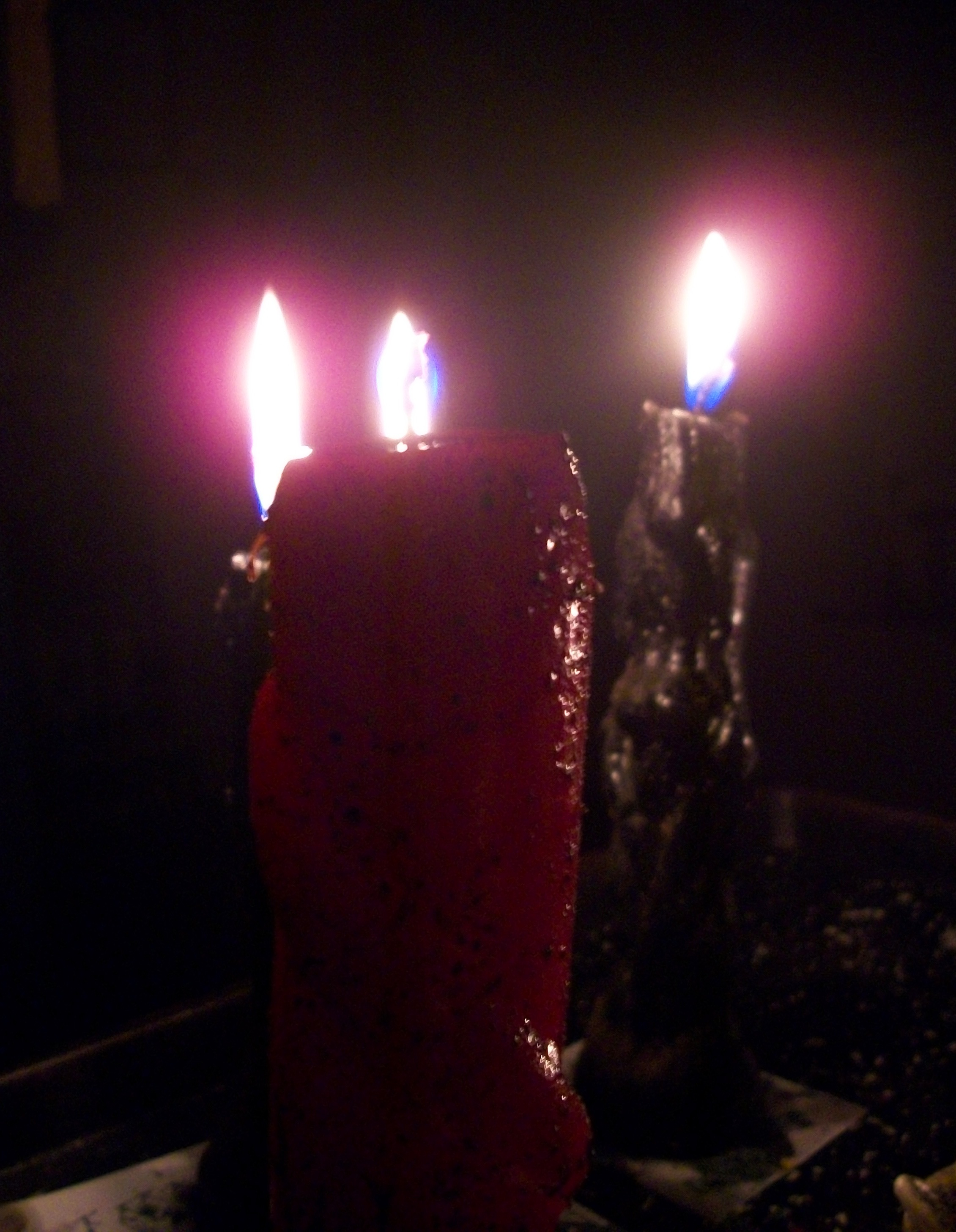 A hoodoo candle magic spell.